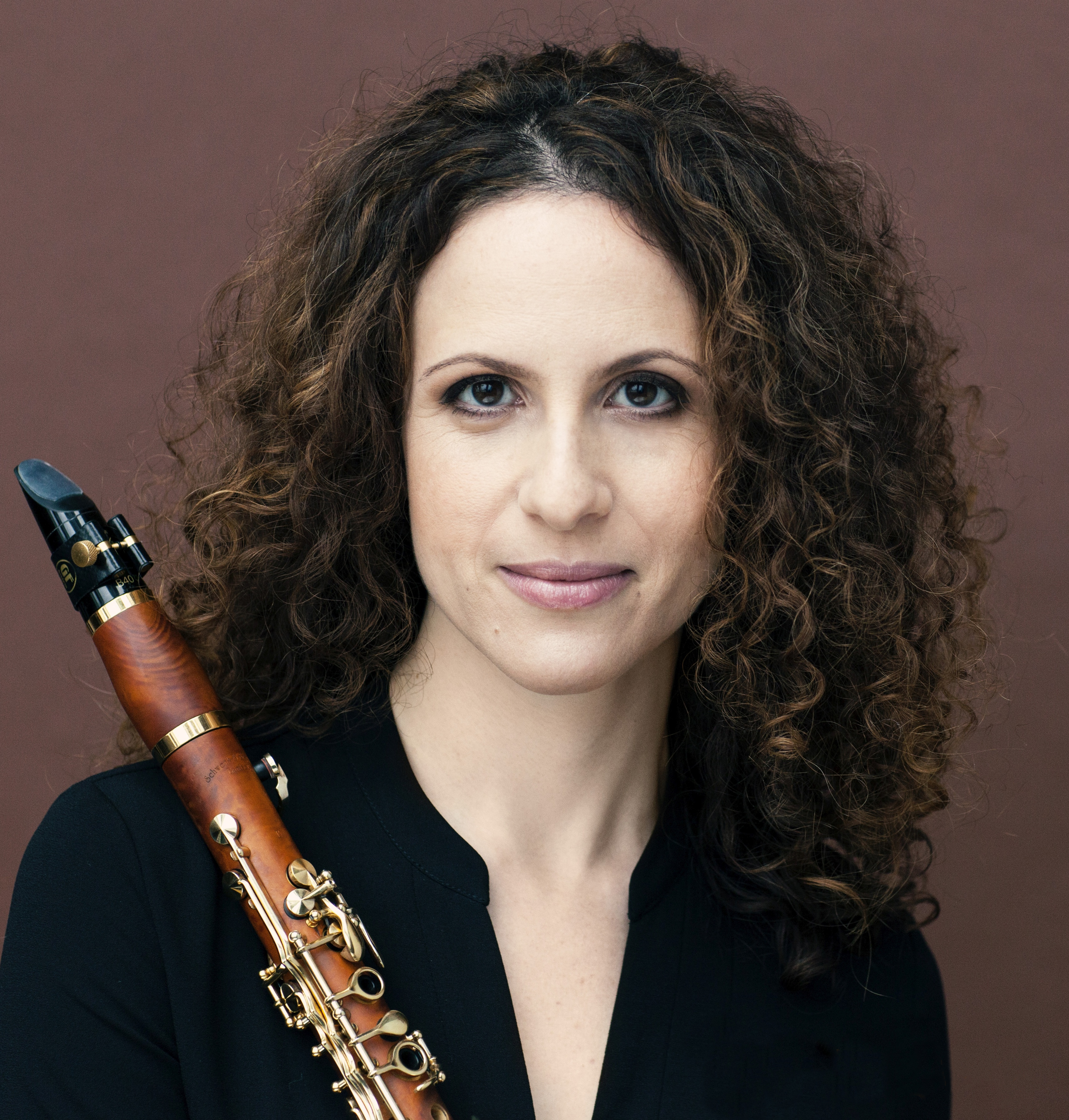 Shirley Brill, clarinetist, portrait